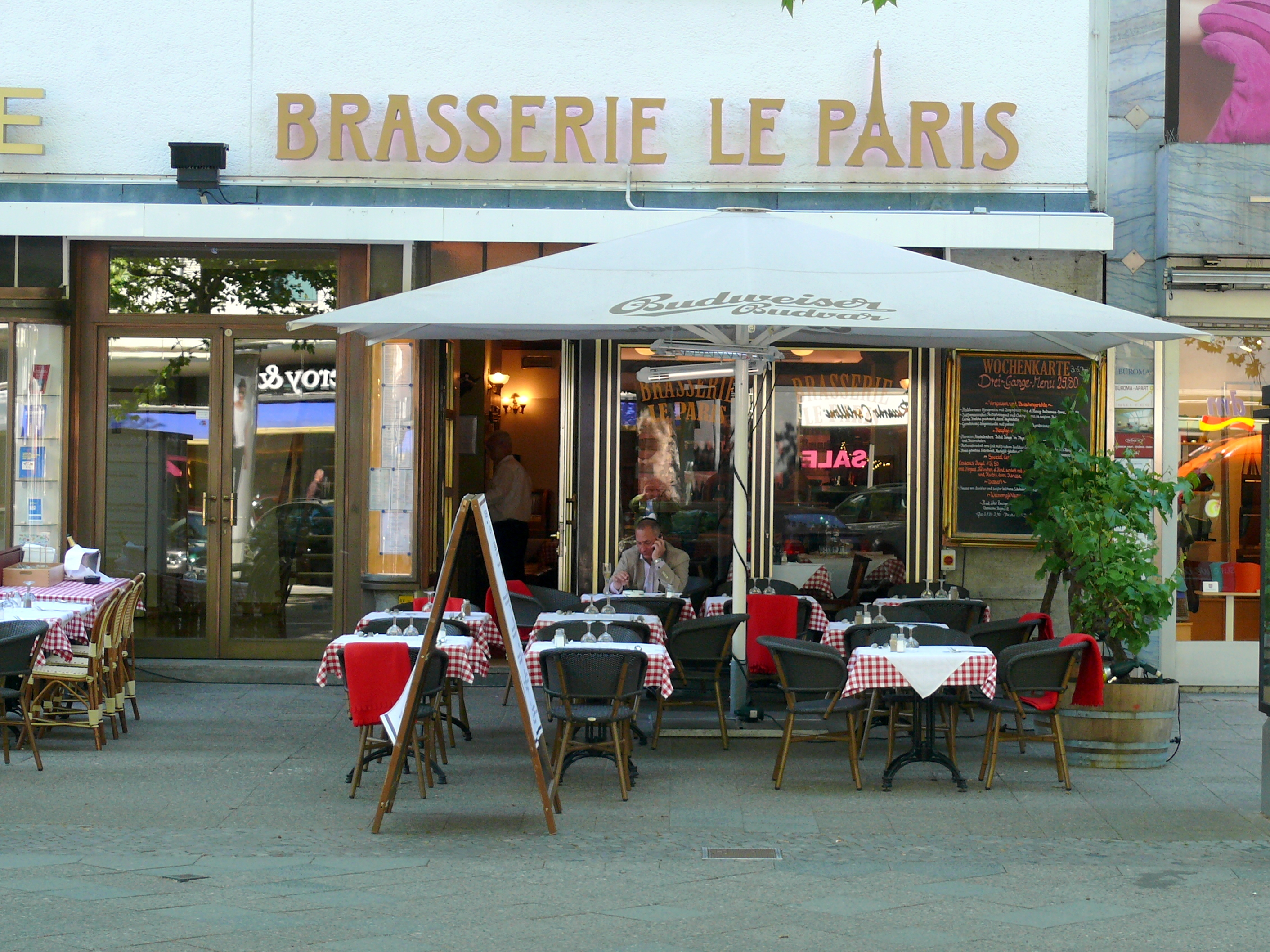 Charlottenburg Kurfürstendamm Brasserie Le Paris